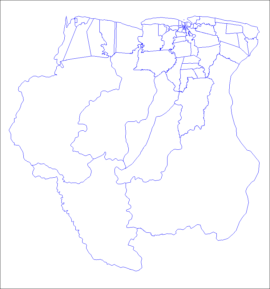 Map of the resorts of Suriname. Created by Rarelibra 17:10, 20 December 2006 (UTC) for public domain use, using MapInfo Professional v8.5 and various mapping resources.